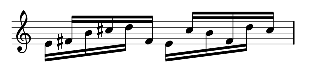 Basic Unit of 12 notes of first section of Piano Phase, by steve Reich